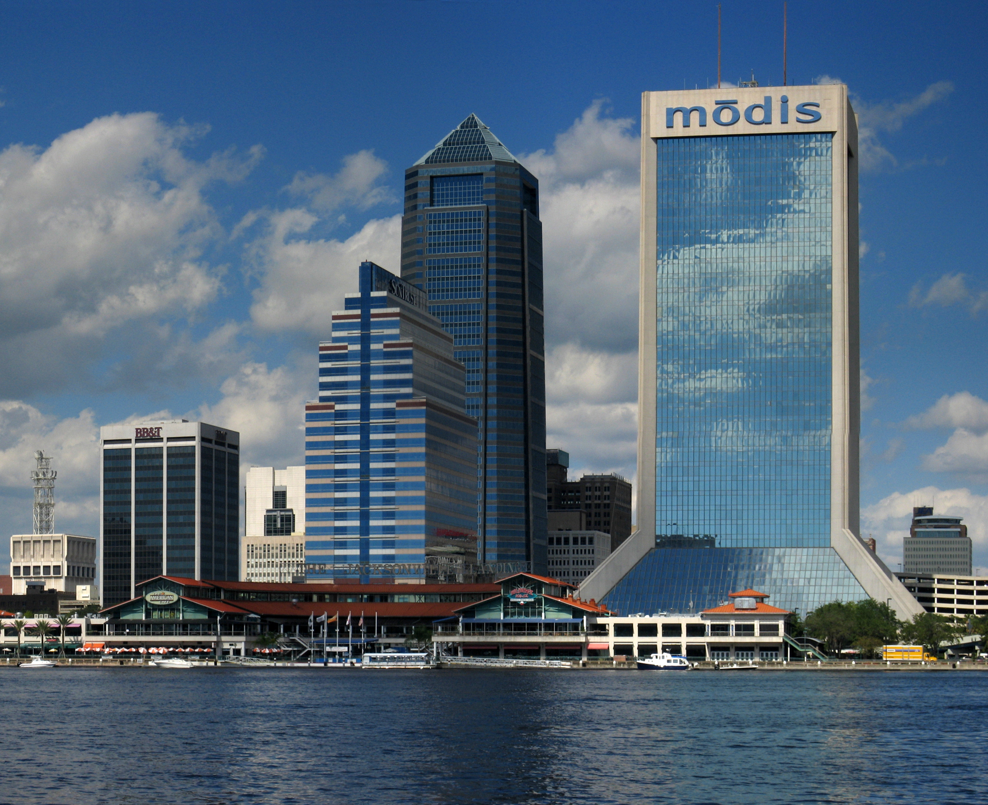 Panorama of Jacksonville city skyline from across the St. Johns river in Jacksonville, Florida, USA. The buildings from left to right are the the Suntrust, the Bank Of America, and the Old Independent Life Building (MODIS)